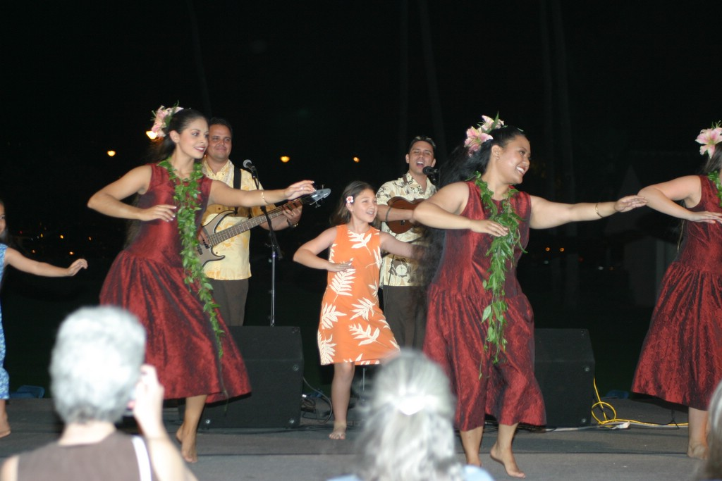 Keali'i Reichel and Hula Halau. Ninth Annual Kukahi Concert, February 12, 2005. Maui Arts & Cultural Center